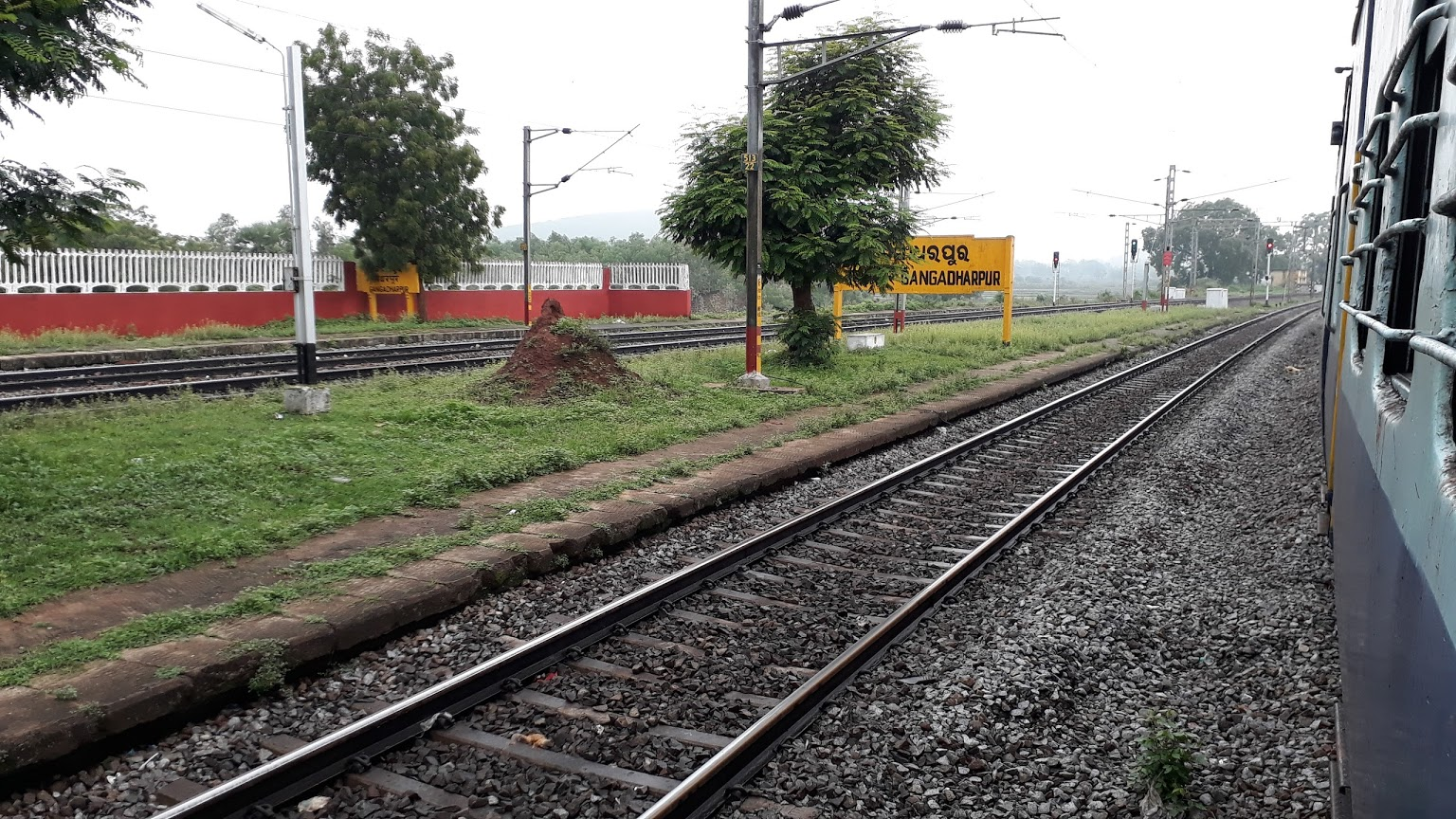 This is the Picture of Gangadharpur railway station